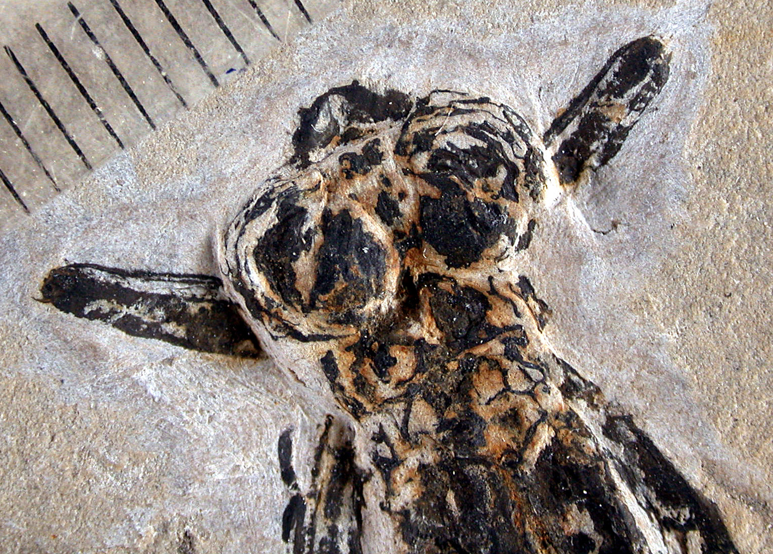 Cratostenophlebia schwickerti (Odonata: Stenophlebiidae), Lower Cretaceous, Crato Formation, Brazil, male holotype WDC 136, head